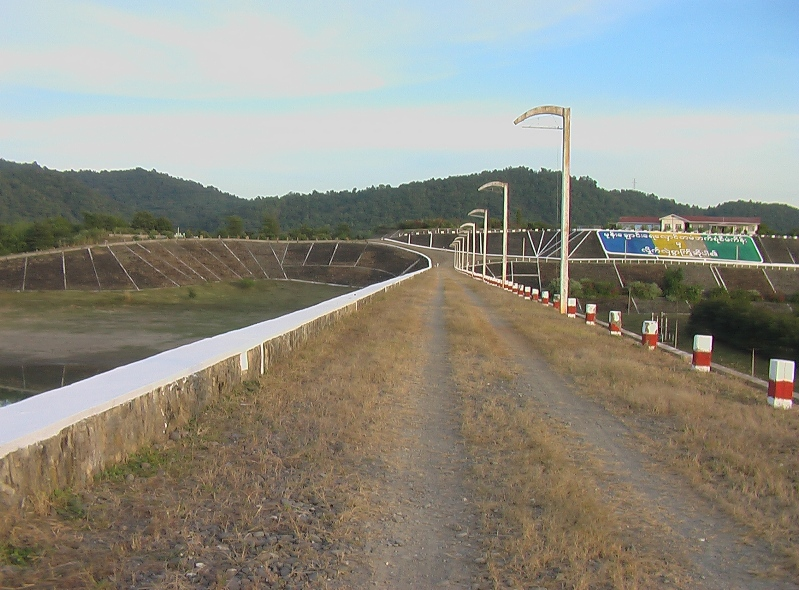 Mone Dam, Sidoktaya, Magway Dividion, Myanmar